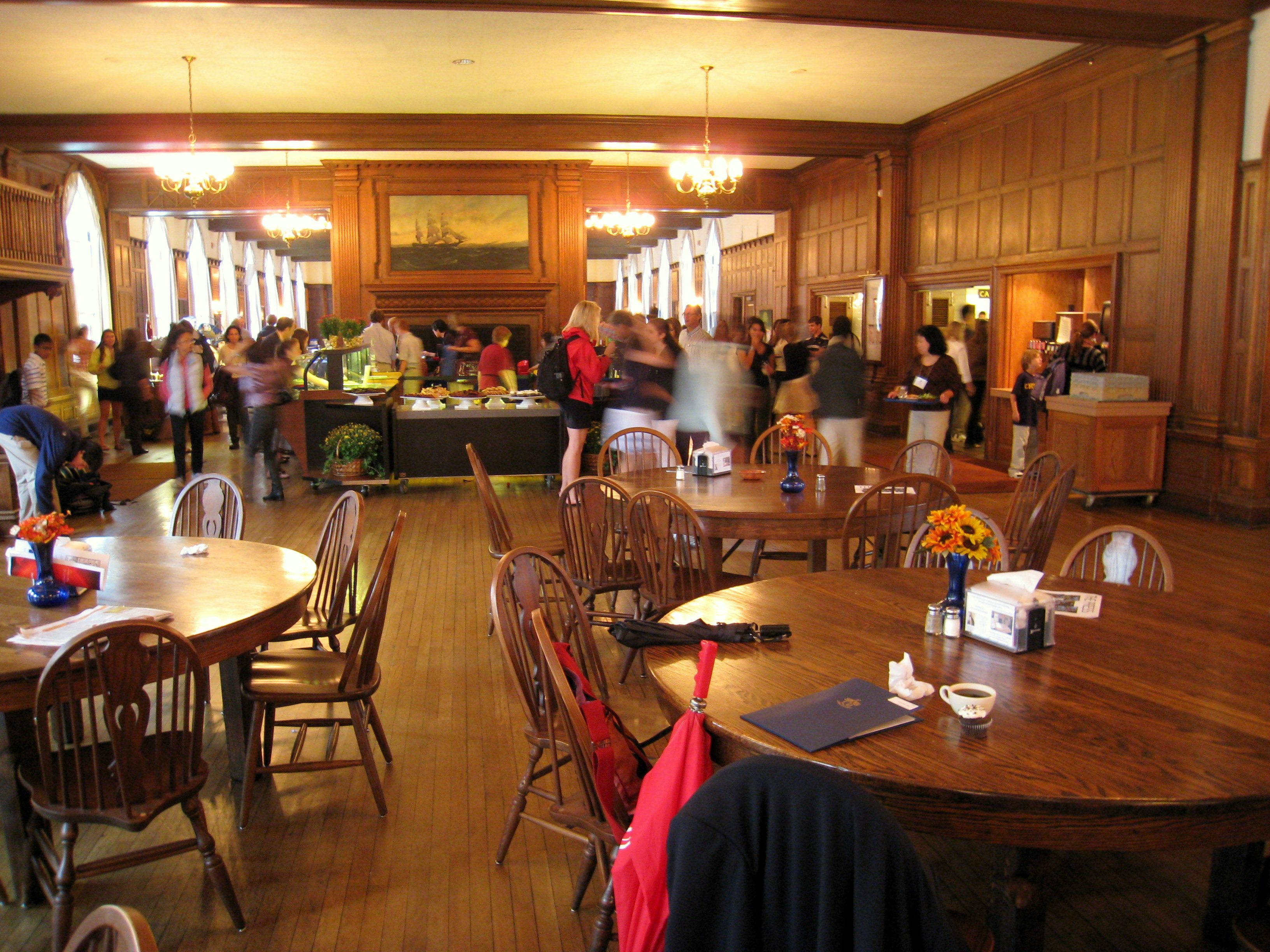 Dining hall interior, Choate Rosemary Hall, Wallingford, Connecticut, USA.